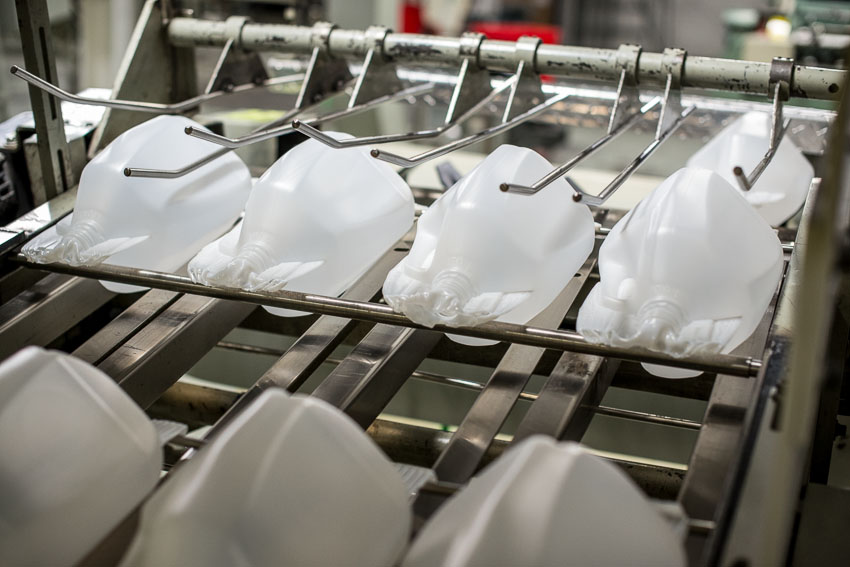 QDC Plastic Blow Molding Plant